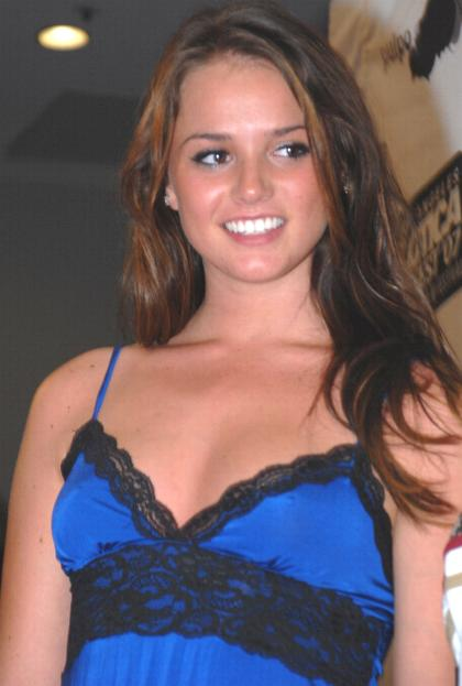 Tori Black at Erotic Film Festival September 16, 2007